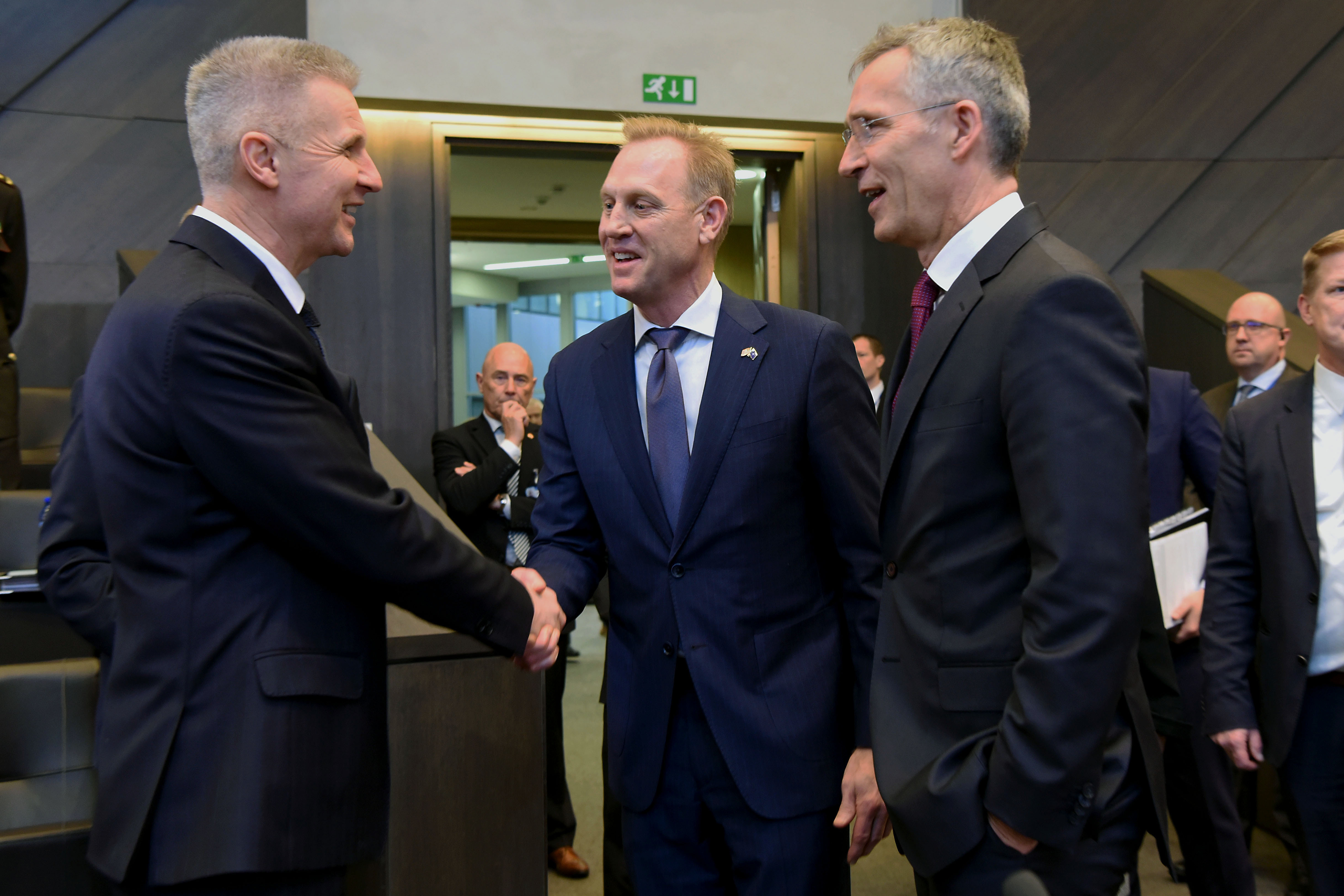 U.S. Acting Secretary of Defense Patrick M. Shanahan, with NATO Secretary General Jens Stoltenberg, greets Latvian Minister of Defense Artis Pabriks at the NATO defense ministerial at NATO headquarters, Brussels, Belgium, Feb. 13, 2019. (DoD photo by Lisa Ferdinando)